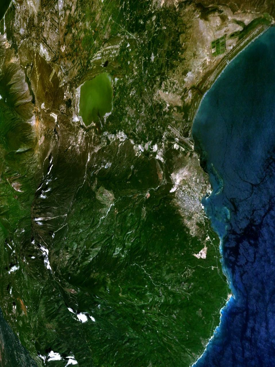 Satellite photo of Santa Cruz de Barahona, Dominican Republic.